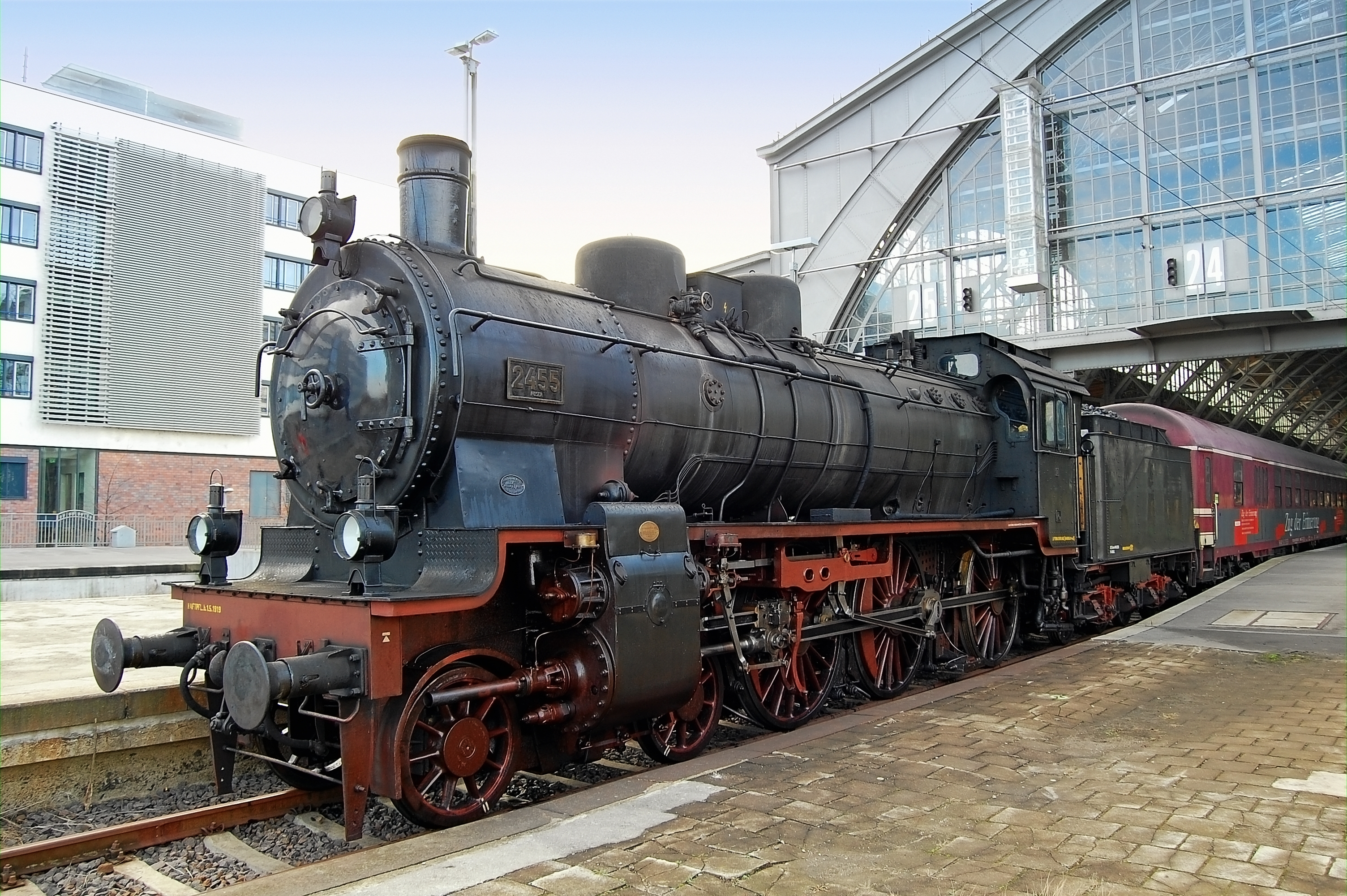 Prussian P 8 steam locomotive.